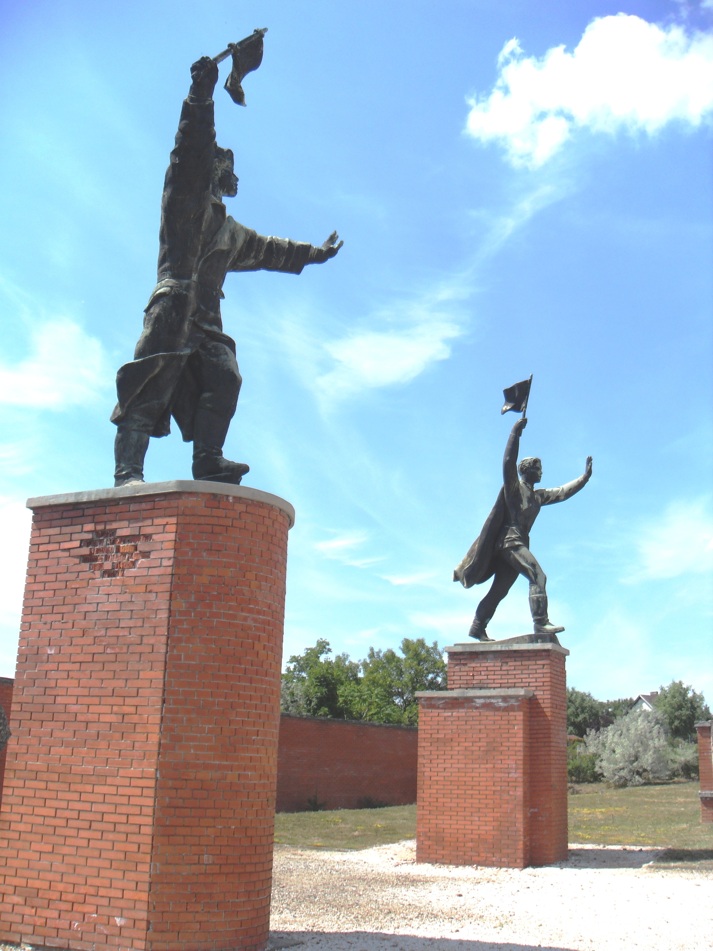 Ostapenko and Captain Steinmetz statues in the Memento Park. Author: Kerényi Jenő (Ostapenko). Year: 1951. The Captain Ostapenko statue once stood on the highway to Lake Balaton.